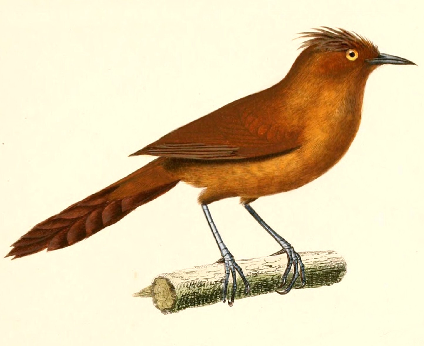 « Anumbius unirufus » = Pseudoseisura unirufa (Grey-crested Cacholote)